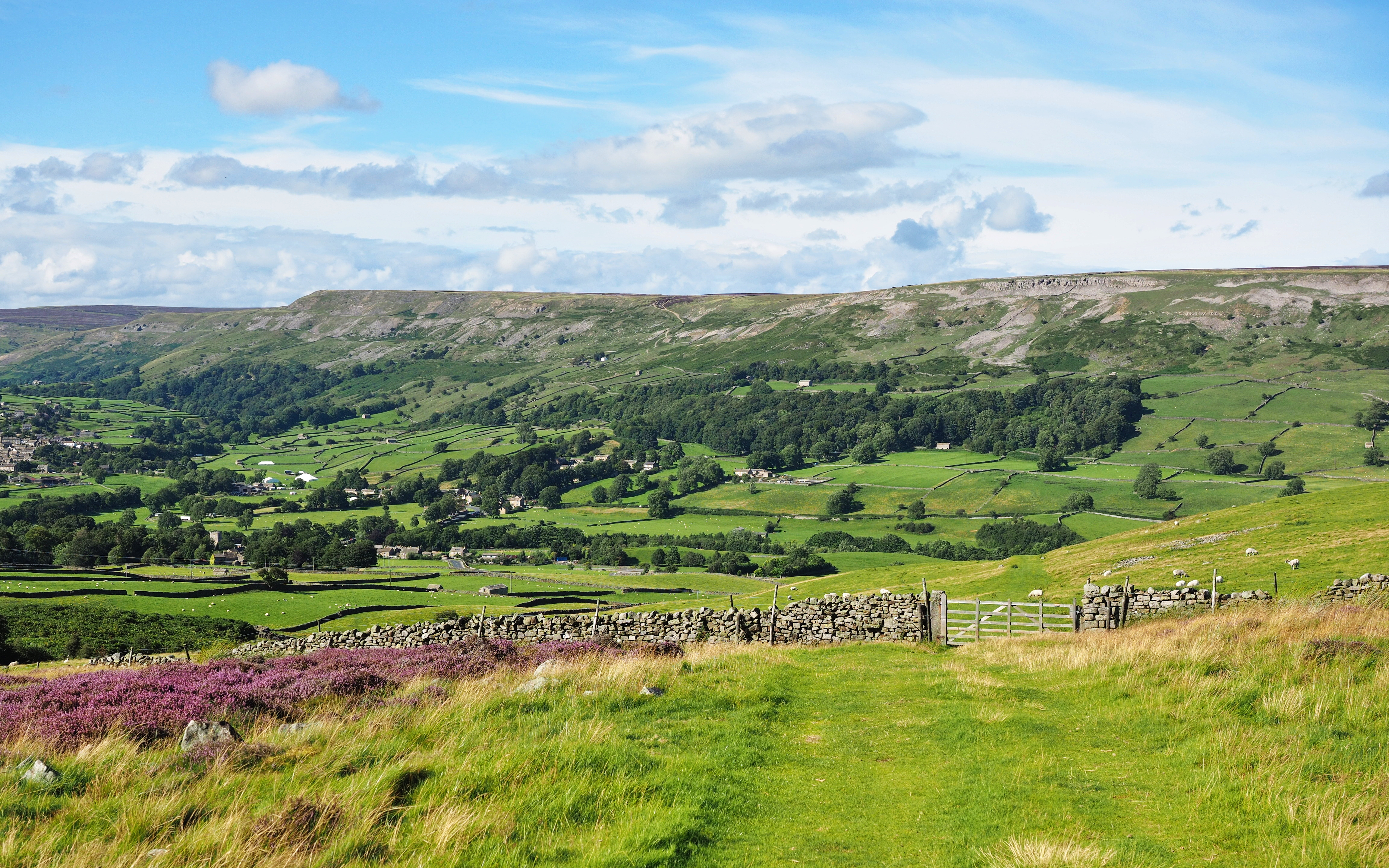 View from Cogden Moor towards Fremington Edge